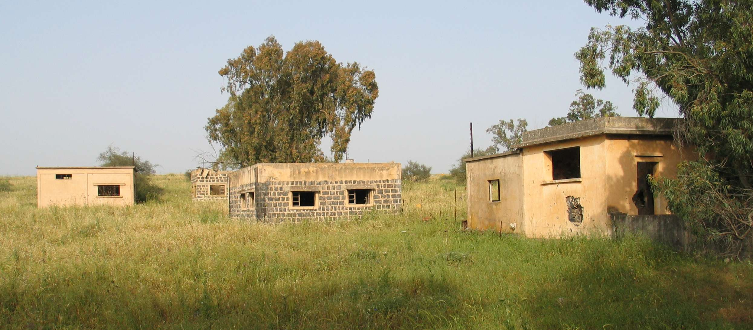 "Upper custom house", east of Bnot Yaakov bridge.